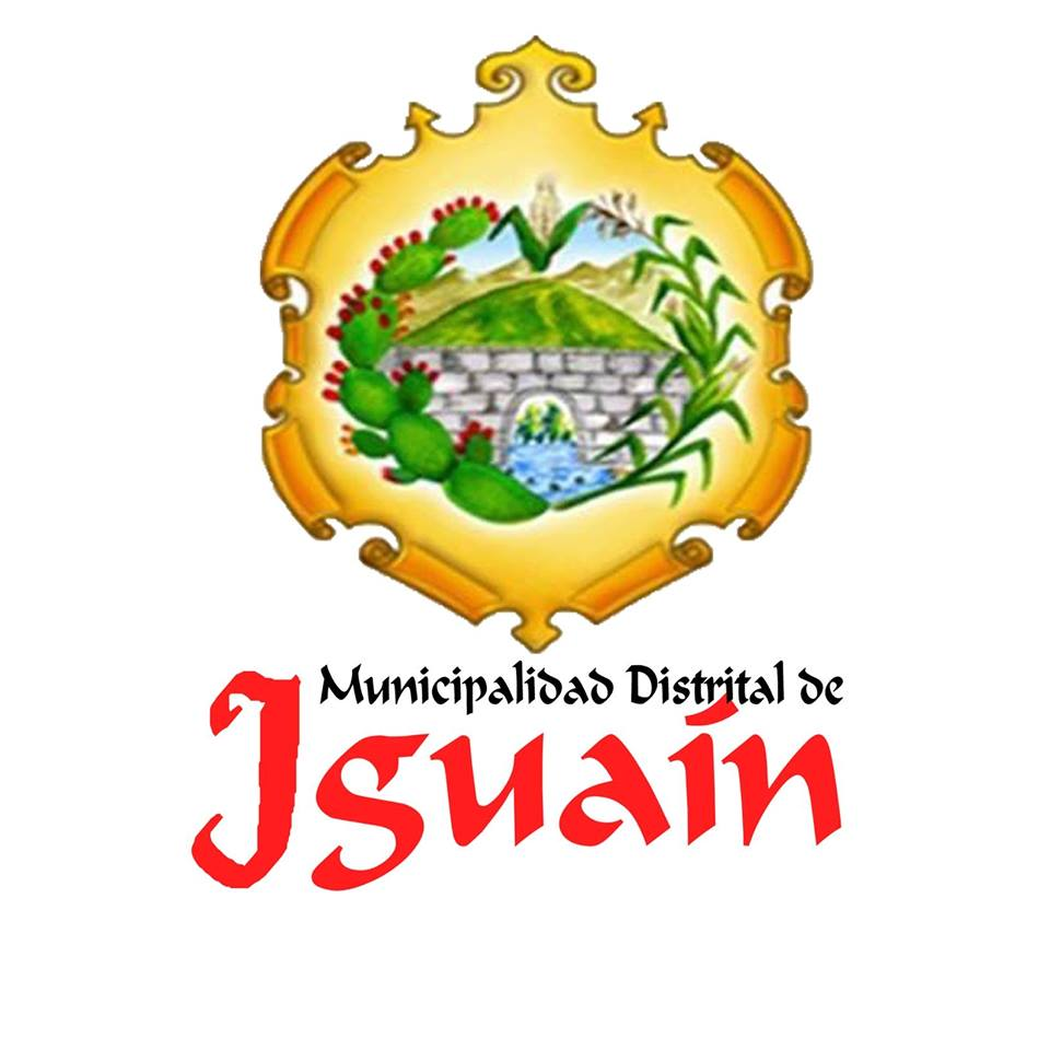 ESCUDO IGUAIN